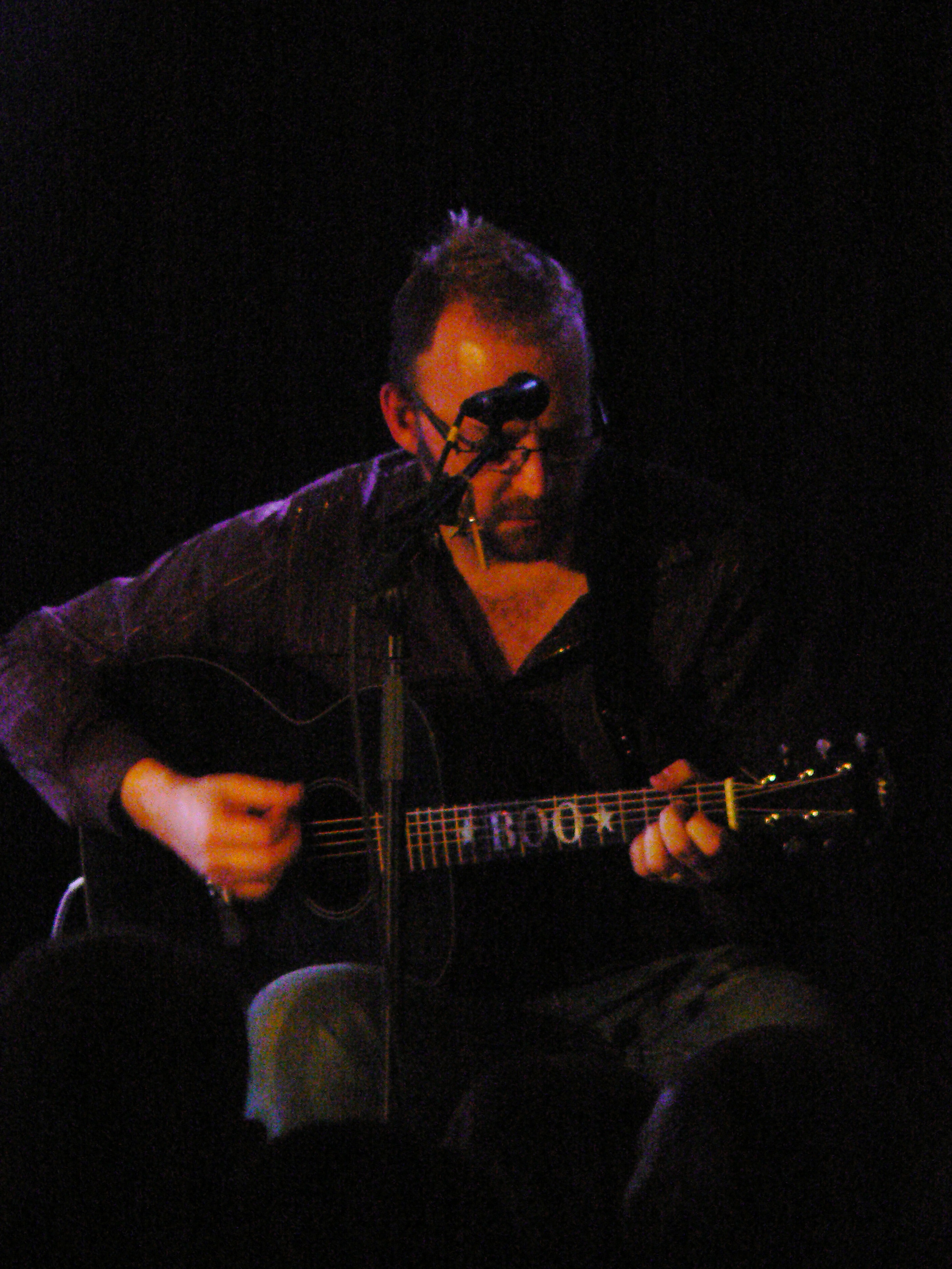 Live at the Lemon Tree, Aberdeen